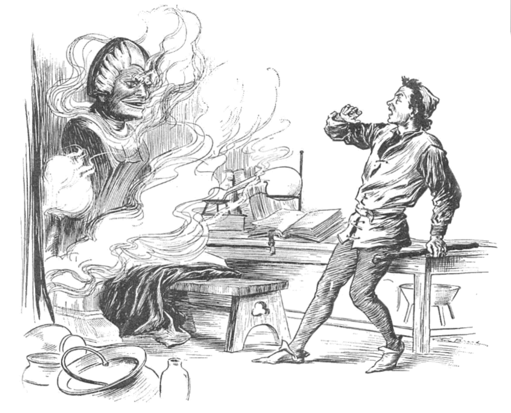 Roger Bacon's supposed assistant Miles confronted by the Brazen Head